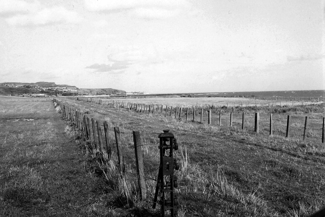 Site of Birnie Road Siding. View NE, towards Inverbervie; Halt on Montrose - Inverbervie branch. Trains called there on Fridays Only -- by request! and service ceased altogether on the branch 1/10/51, although Goods continued until 23/5/66.